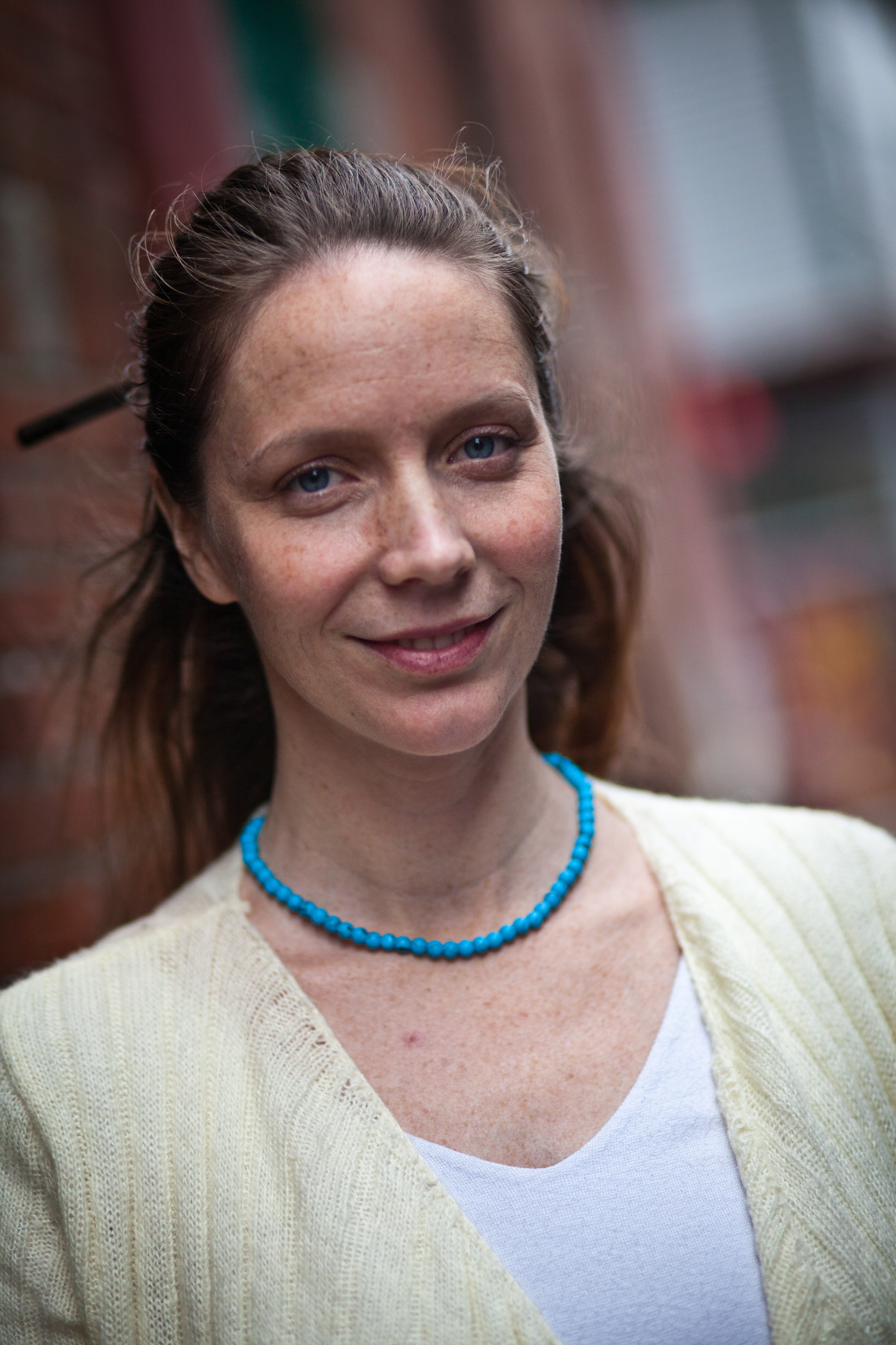 Kim Cobb - PopTech 2010 - Camden, Maine